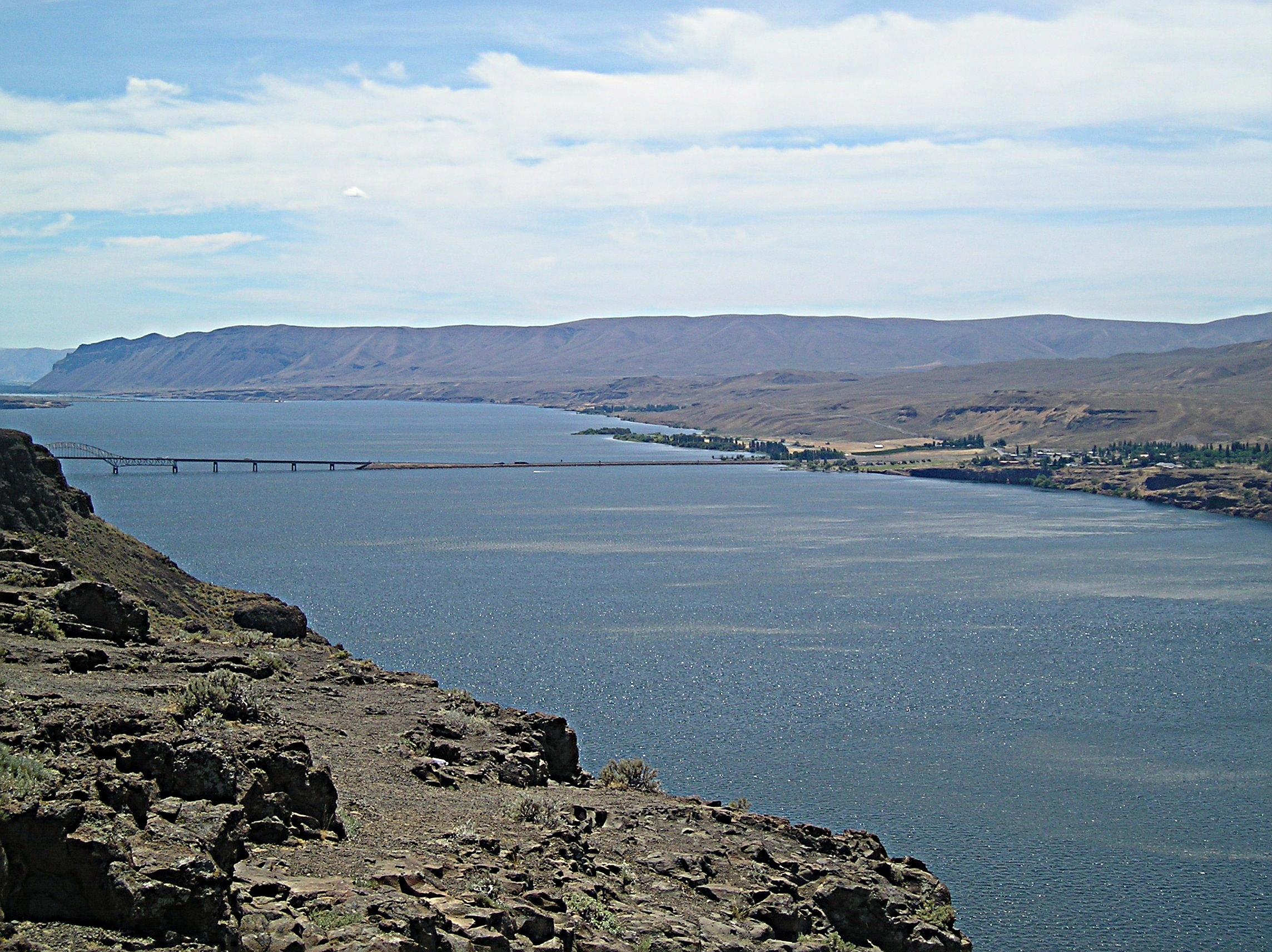 I-90 Columbia River Bridge, near Vantage, Washington